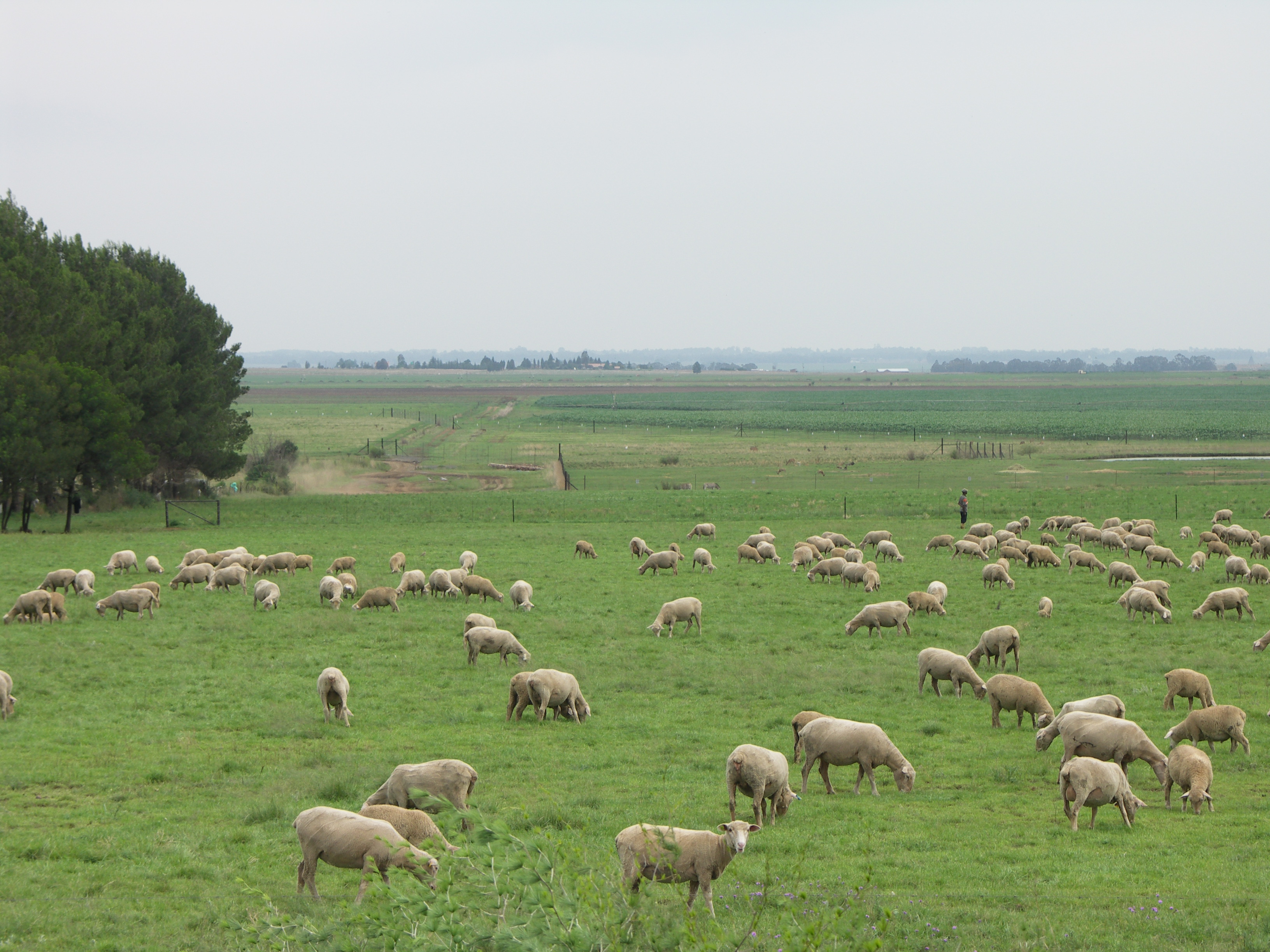 A sheep farm in Gauteng, South Africa